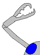 Eurypterid chelicera Ref: Braddy, S.J., Markus Poschmann, M., and Tetlie, O.E. (2008). "Giant claw reveals the largest ever arthropod". Biology Letters 4: 106–109.